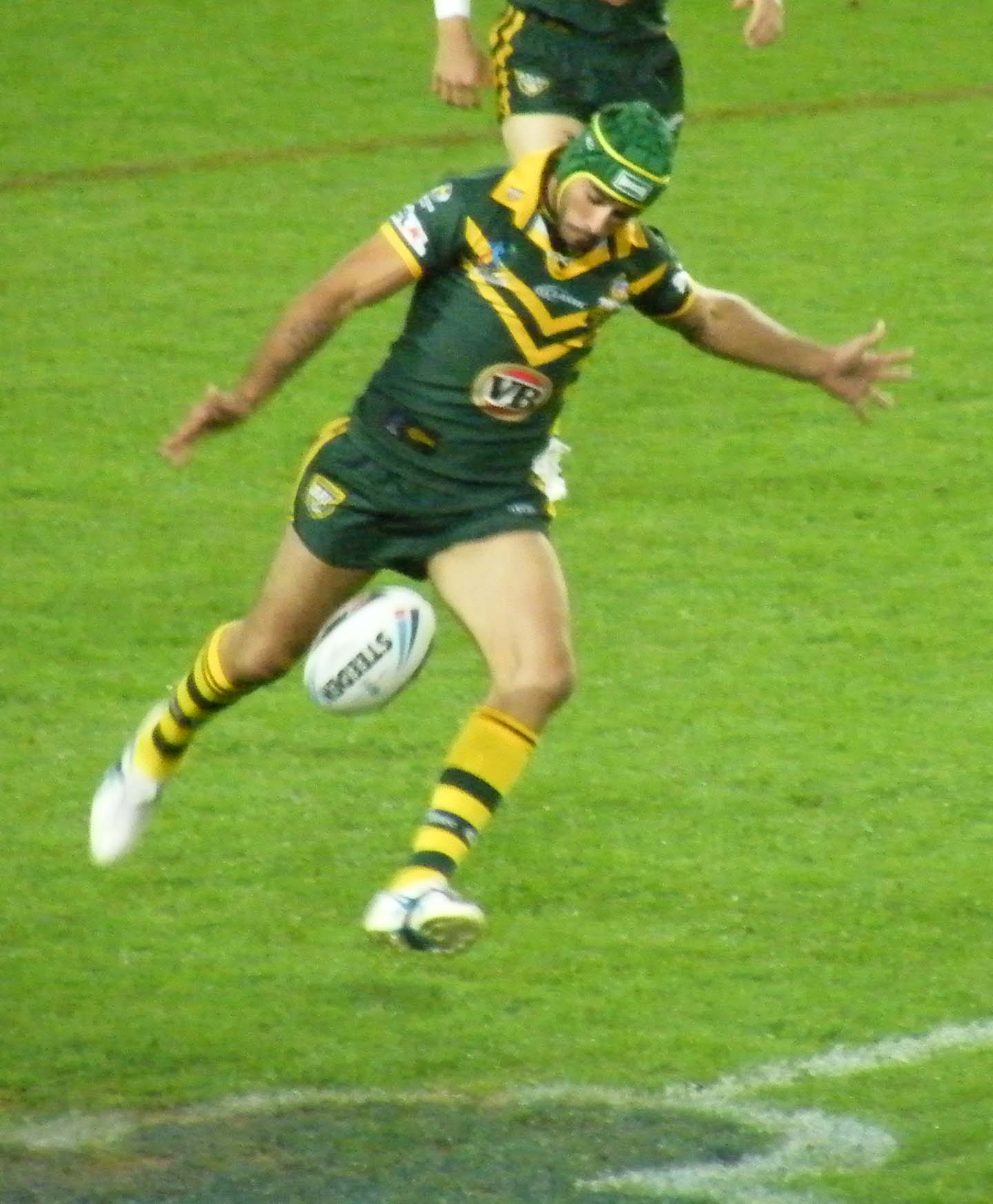 Australian playmaker Jonathan Thurston. RLWC 2008.